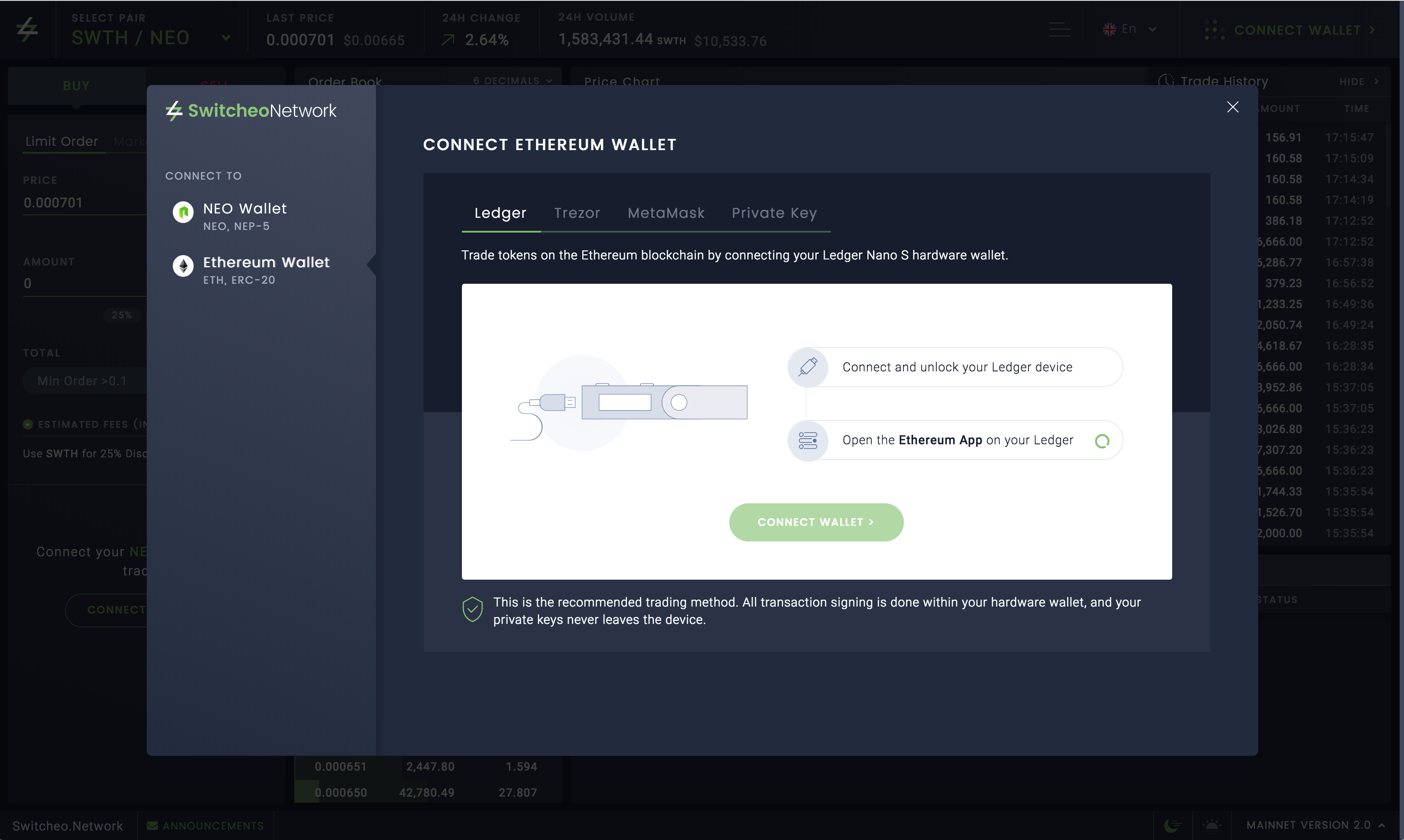 Ledger login on Switcheo Exchange